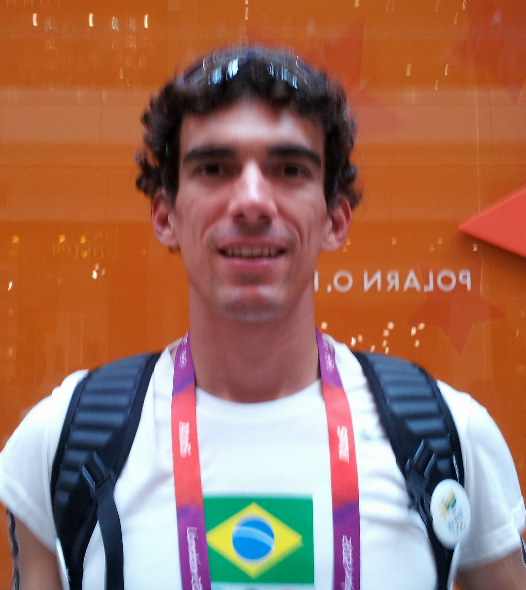 Brazilian triathlete Diogo Sclebin, at The London 2012 Summer Olympic Games